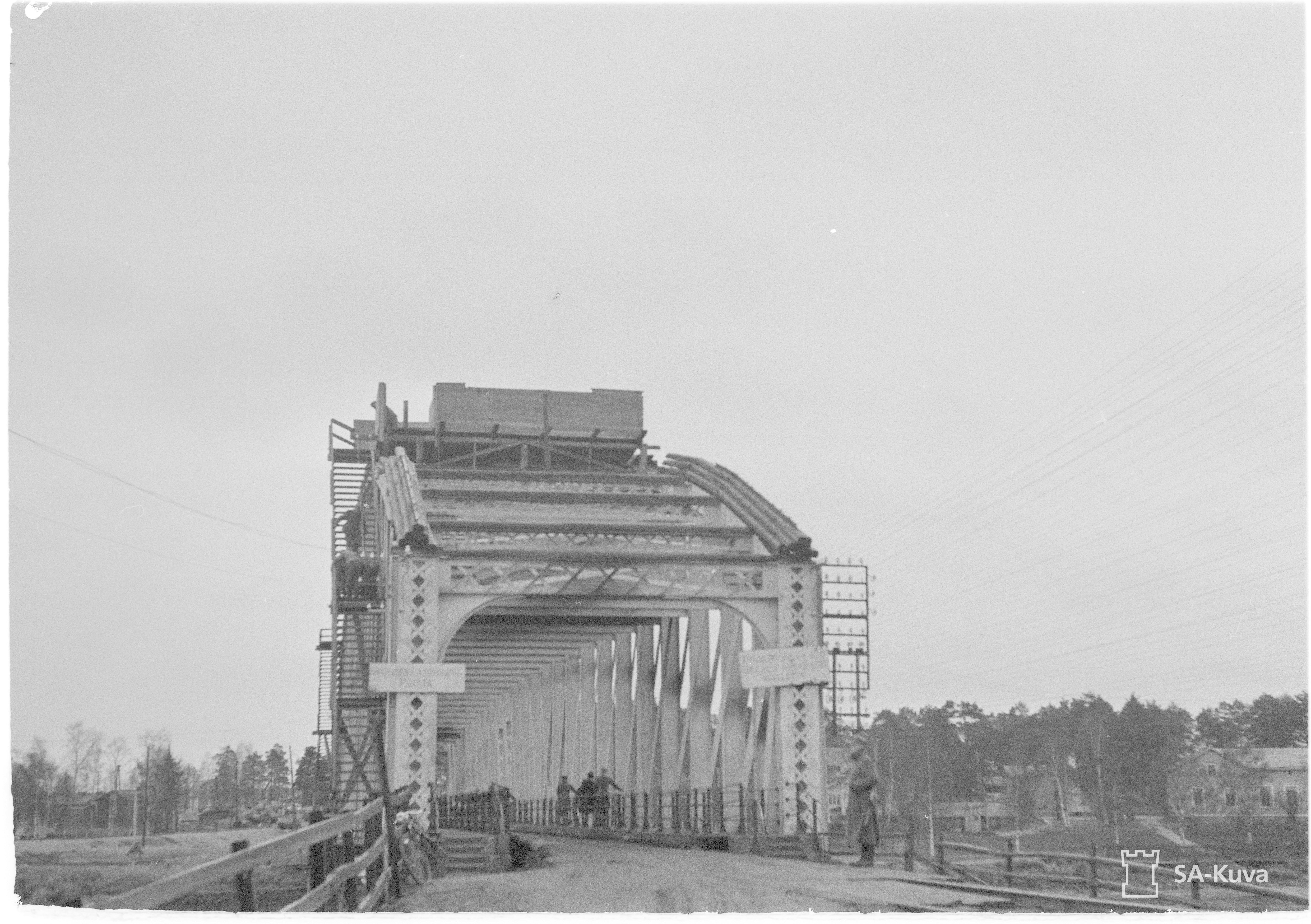 Artillery protection of the bridge